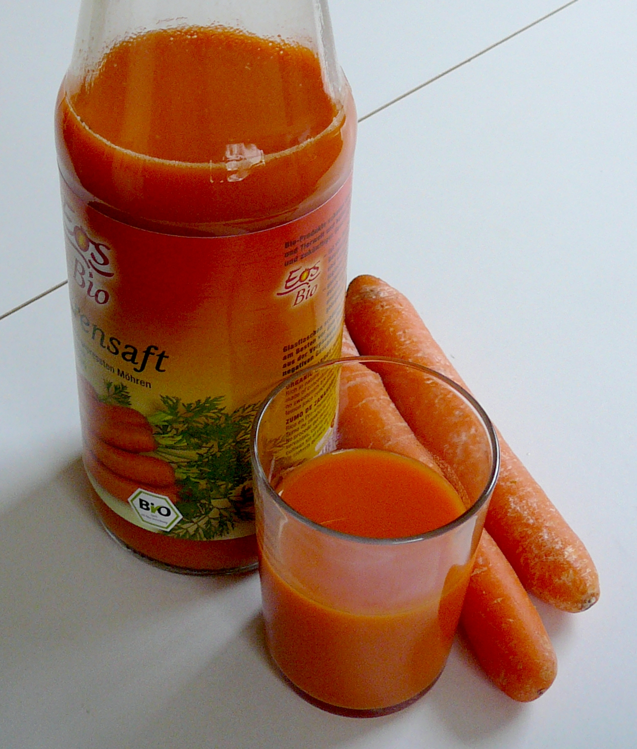 Bio carrot juice from Germany